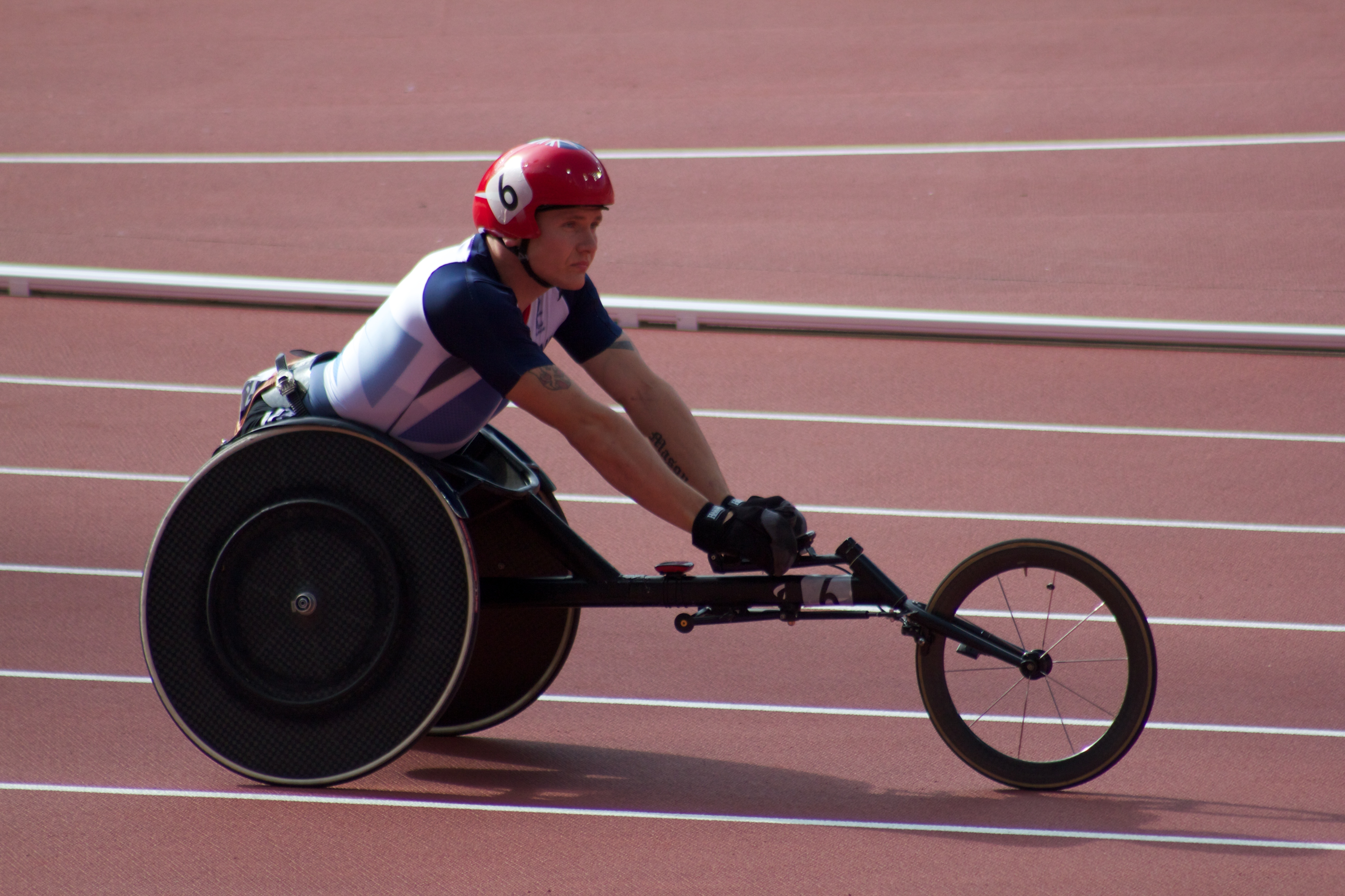 warming up - David Weir